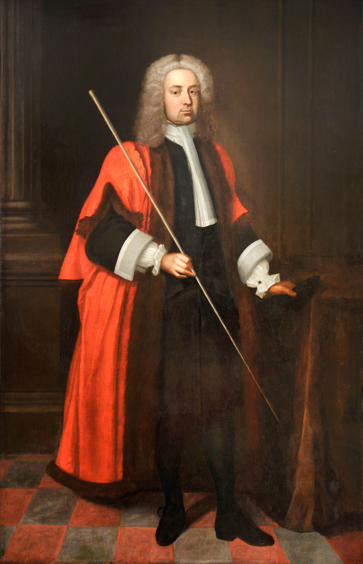 This is the portrait of Sir Richard Grosvenor, 4th Baronet of Eaton